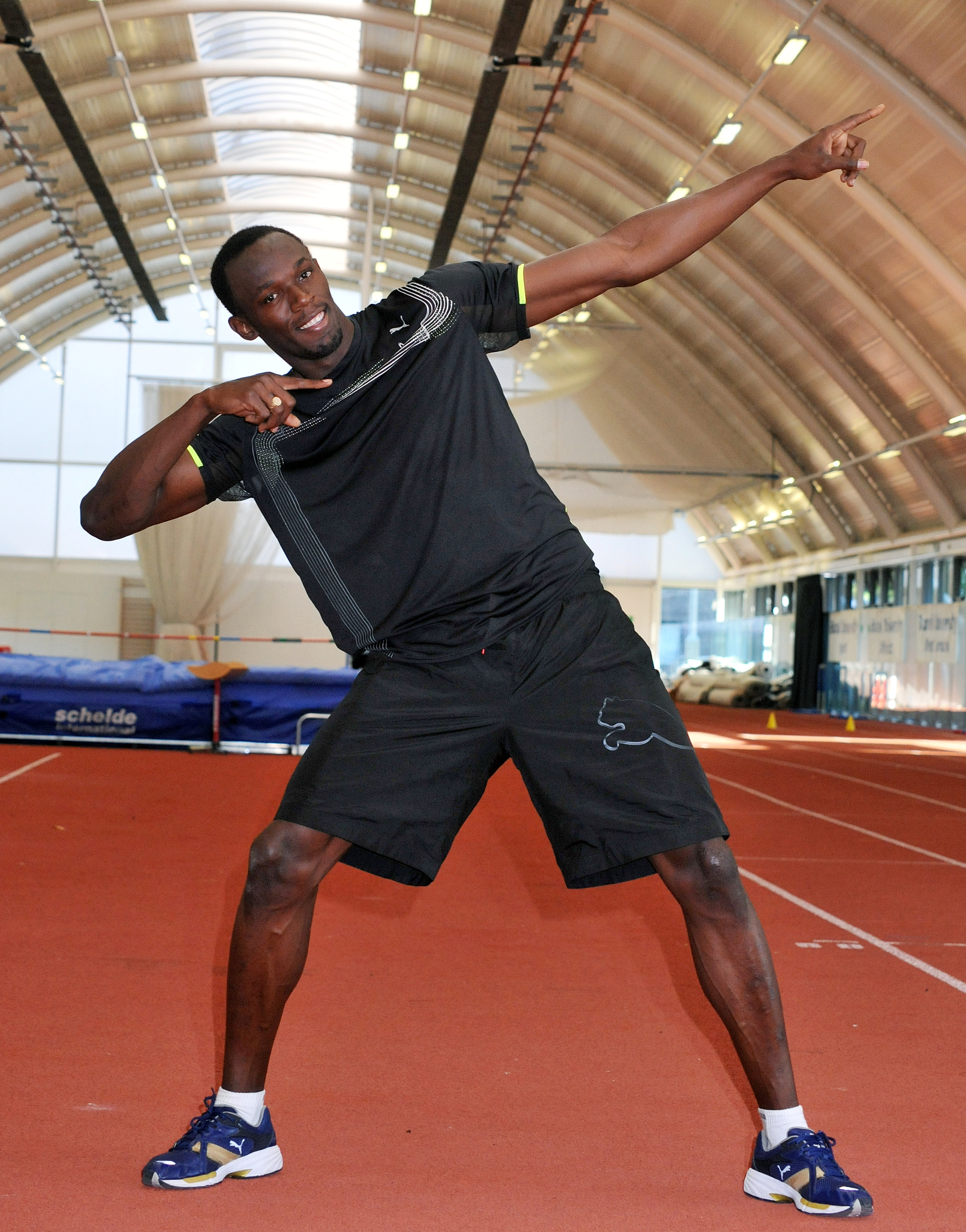 Sprinting legend Usain Bolt pictured in Brunel University's indoor athletics Centre. Usain used Brunel as a European training base prior to the 2009 Berlin Athletics World Championships.